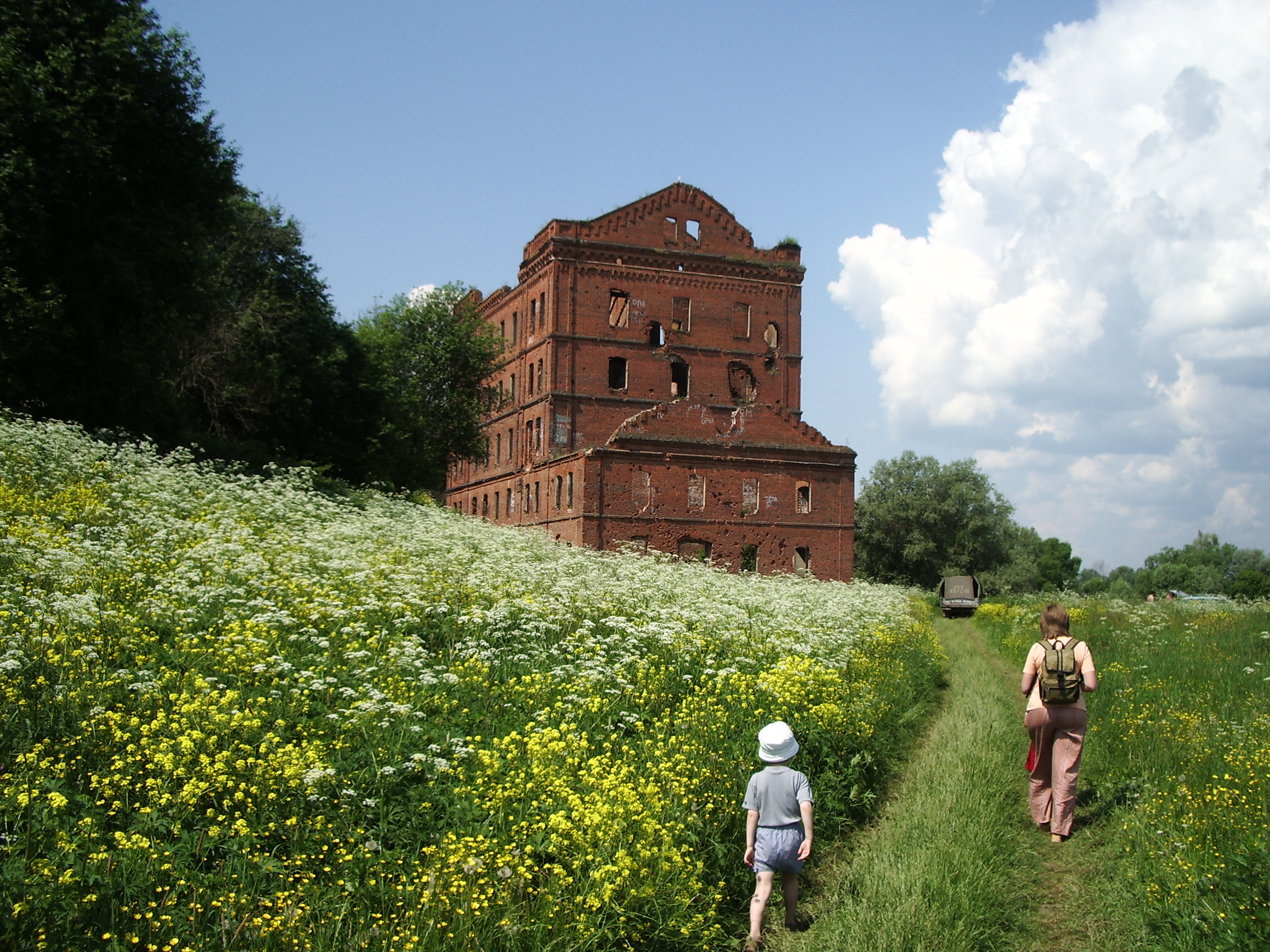 Mill in Yuryatino, Tarusa District, Kaluga Oblast (south of Protvino, Moscow Oblast). Burnt down in World War 2 and never restored. It stands just south of the boundary between Moscow Oblast and Kaluga Oblast, on the Protva River.